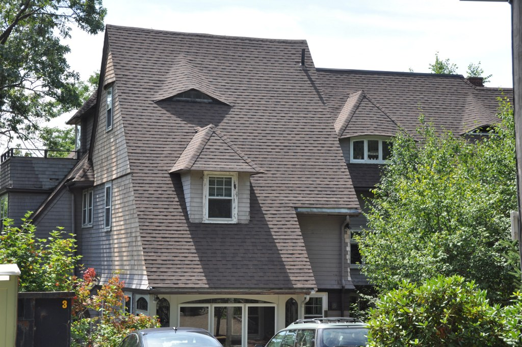 A photograph of the historic House at 89 Rawson Road and 86 Colburne Crescent, taken from the Colburne Crescent side.